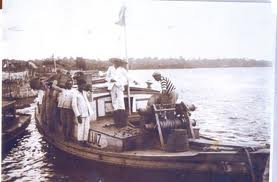 Embarking brazil nut on a boat in the town of Marabá, in 1927